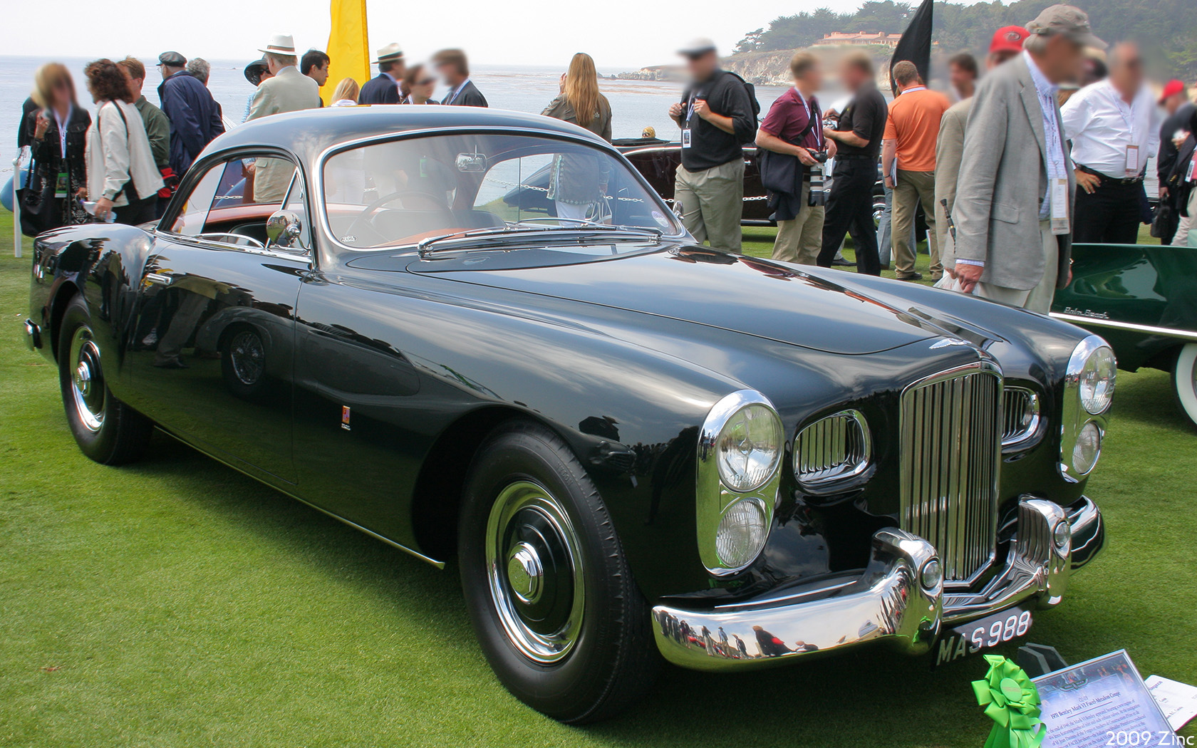 1951 Bentley Mark VI Facel-Metalon Coupé at Pebble Beach Concours d'Elegance, Aug 16, 2009